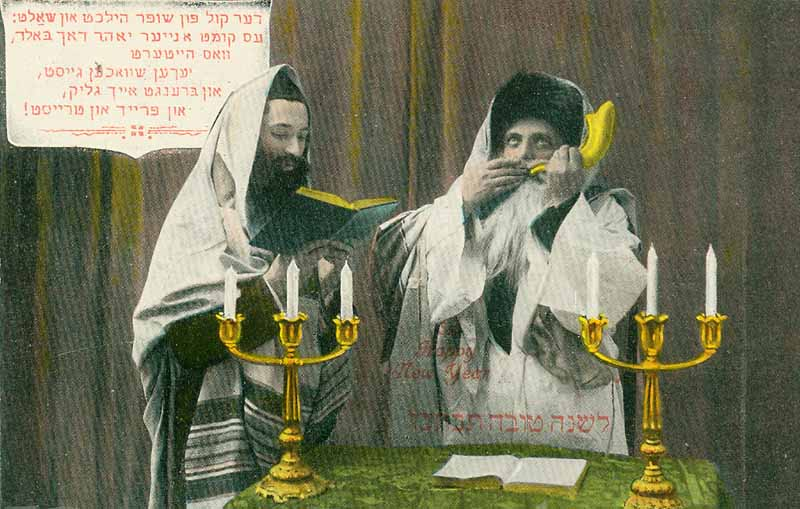 Creator: Williamsburg Art Company, New York Date: circa 1910 Object origin: Germany Medium: printed on paper Repository: Yeshiva University Museum Call Number: 1992.176 Rights Information: No known copyright restrictions; may be subject to third party rights. For more copyright information, click here. See more information about this image and others at CJH Museum Collections. This material may be used for personal, research and educational purposes only. Any other use without prior authorization is prohibited. Please contact the Yeshiva University Museum at for further information.